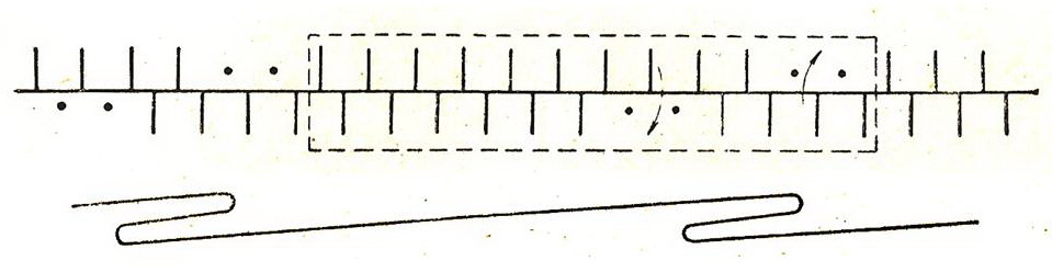 Knife pleat made on double-bed weft knitting machine